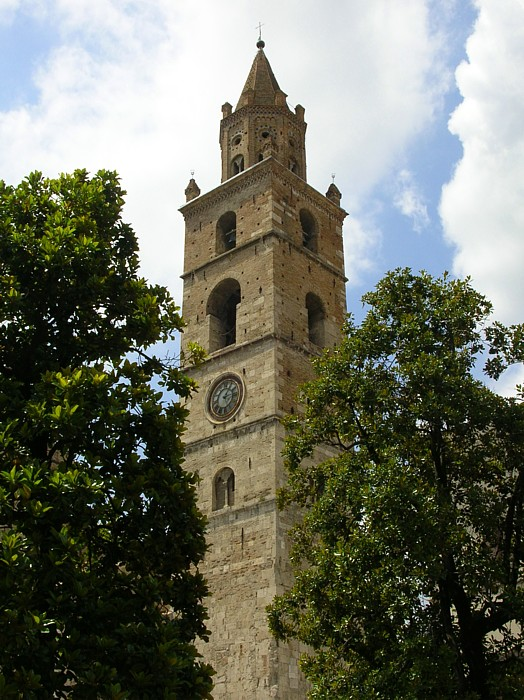 Teramo: Belltower of the cathedral picture taken by user:Idéfix, july 2005